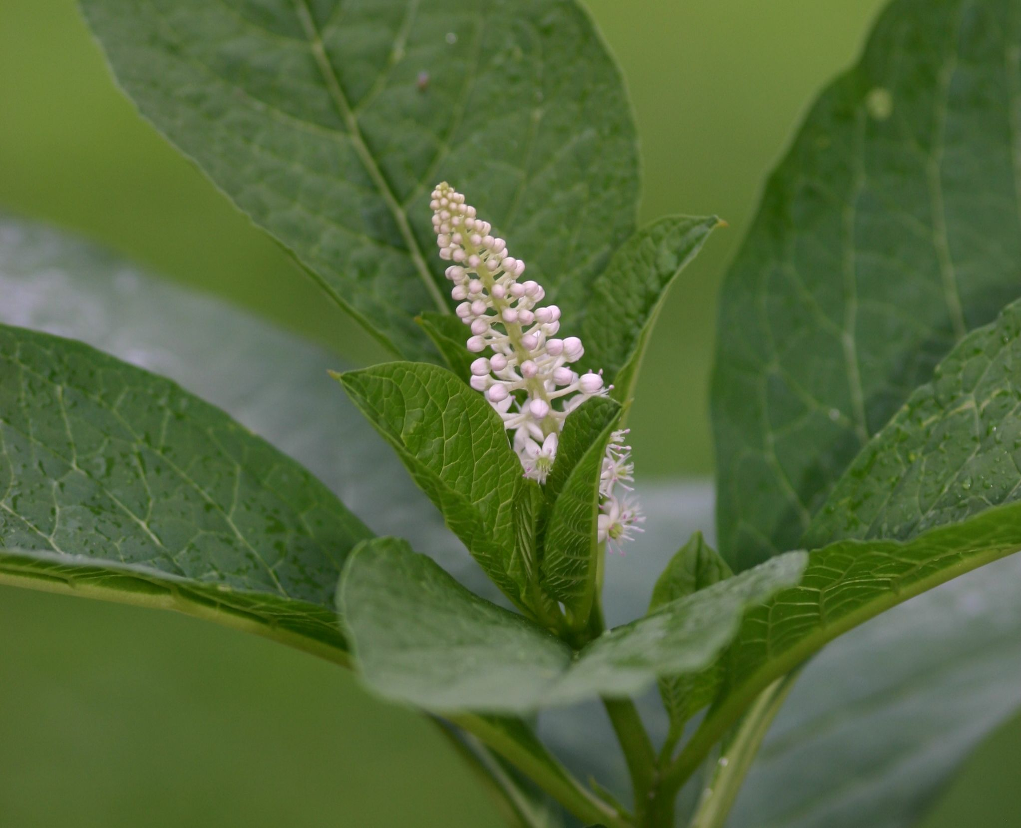 Phytolacca americana in Nagycenk, Hungary